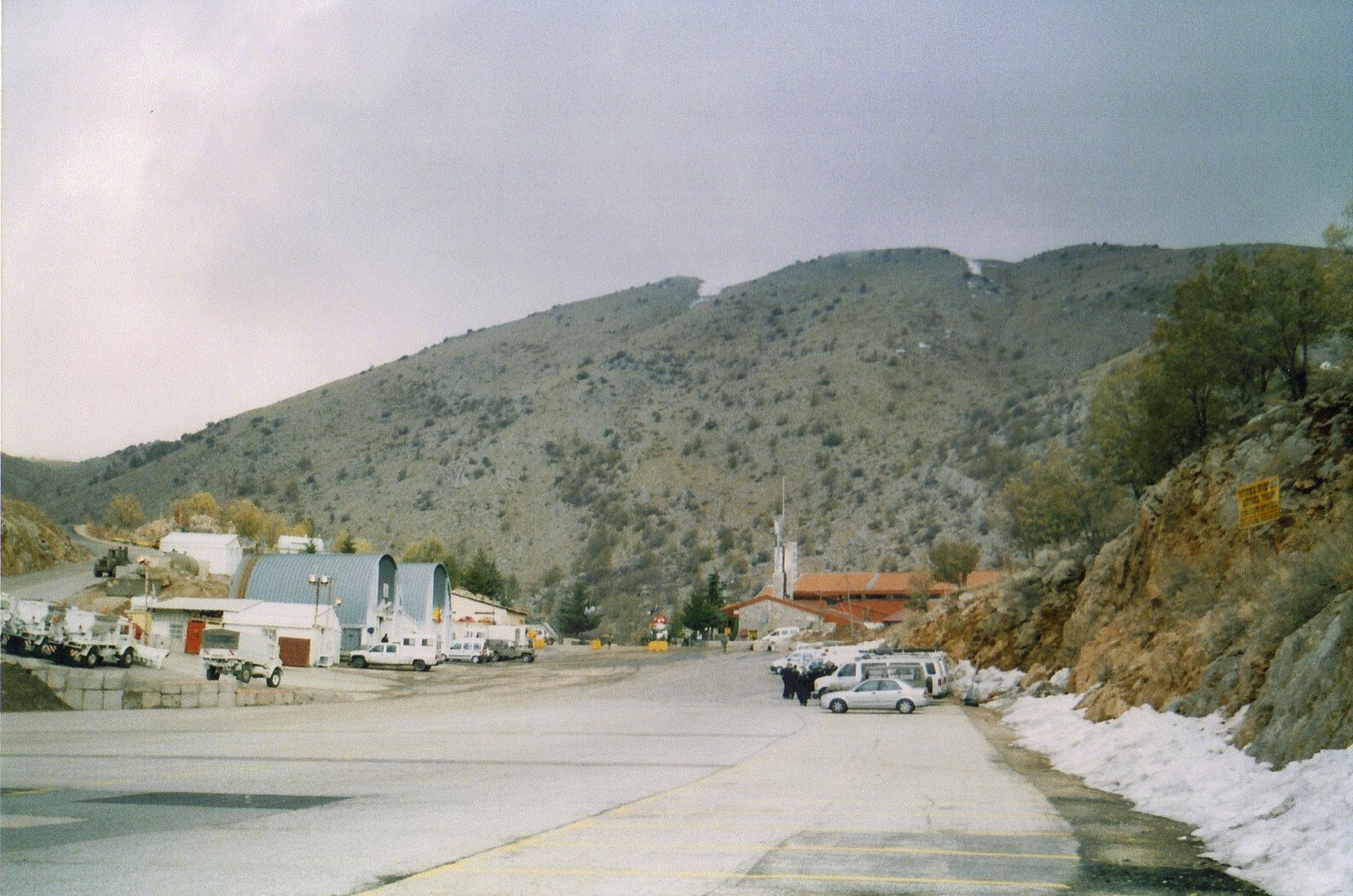 the Hermon mounting